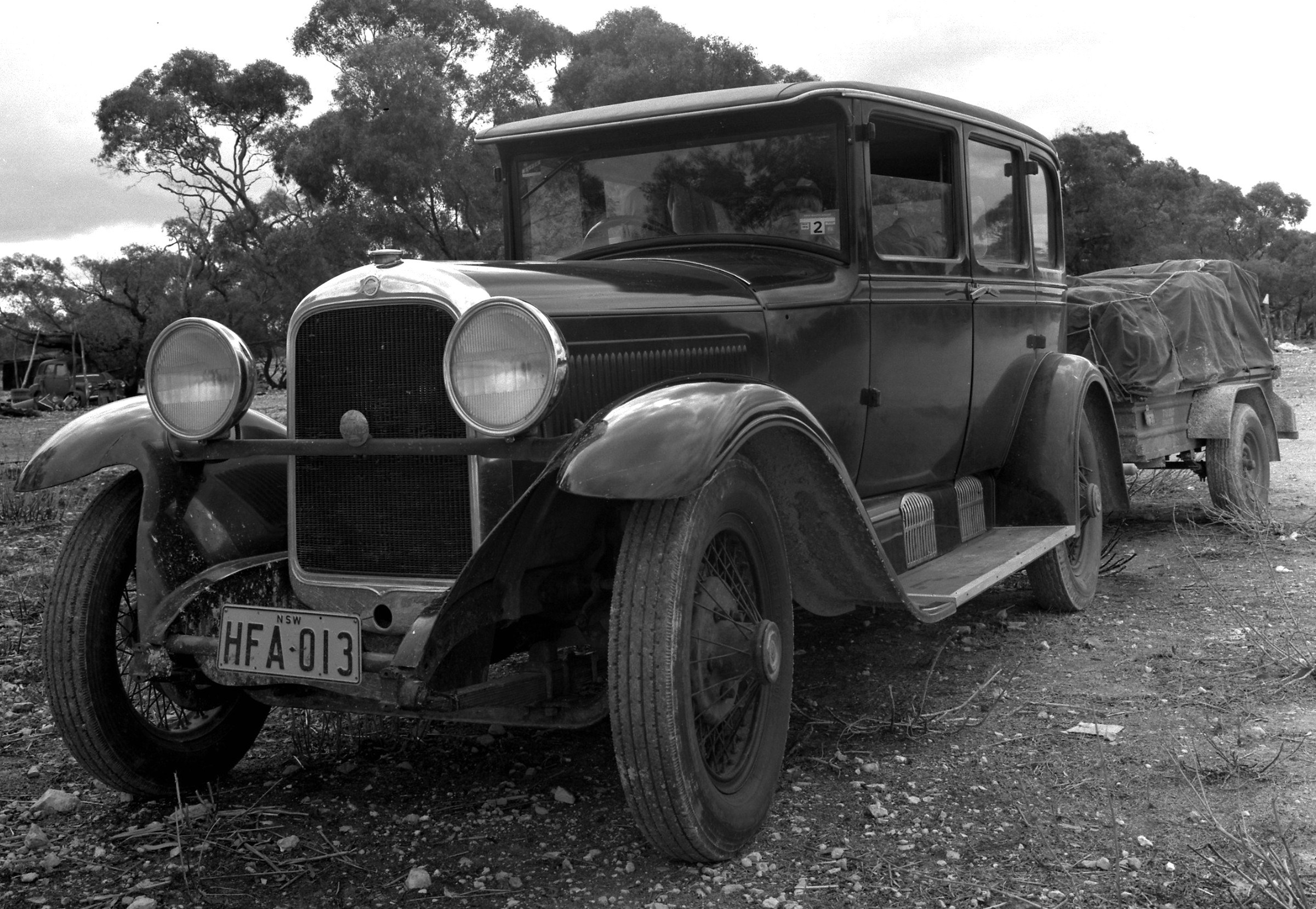 1928 GB Studebaker Regal Commander, photographed near Murray Bridge, South Australia in March 1975, en route from Sydney to Perth, a distance of some 4100 km.